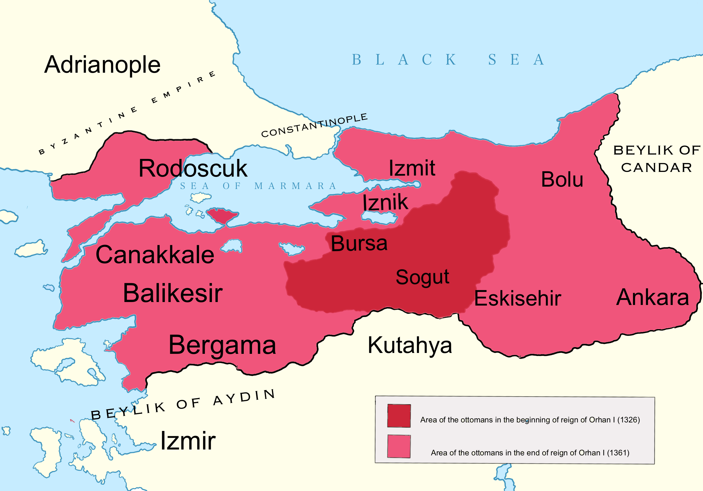 Map showing the area of the Ottoman Empire during the reign of Orhan I and his conquests. I used the information of various historical books and these maps